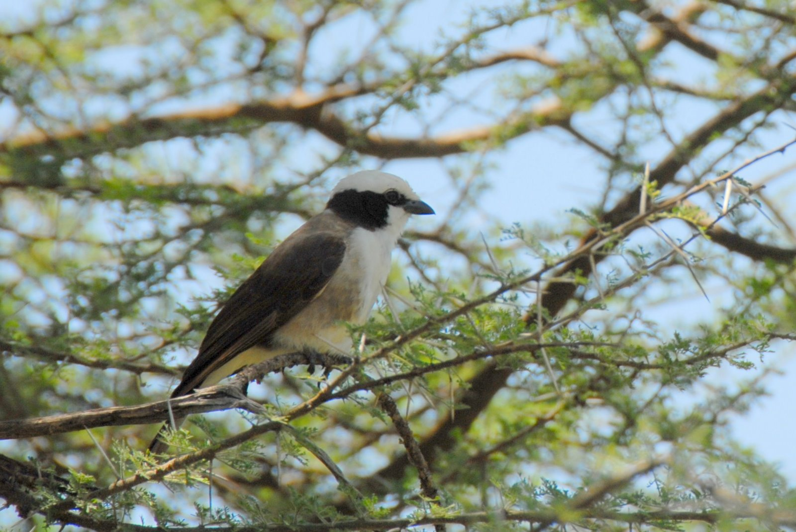 A Southern White-crowned Shrike at Serengeti National Park, Tanzania.